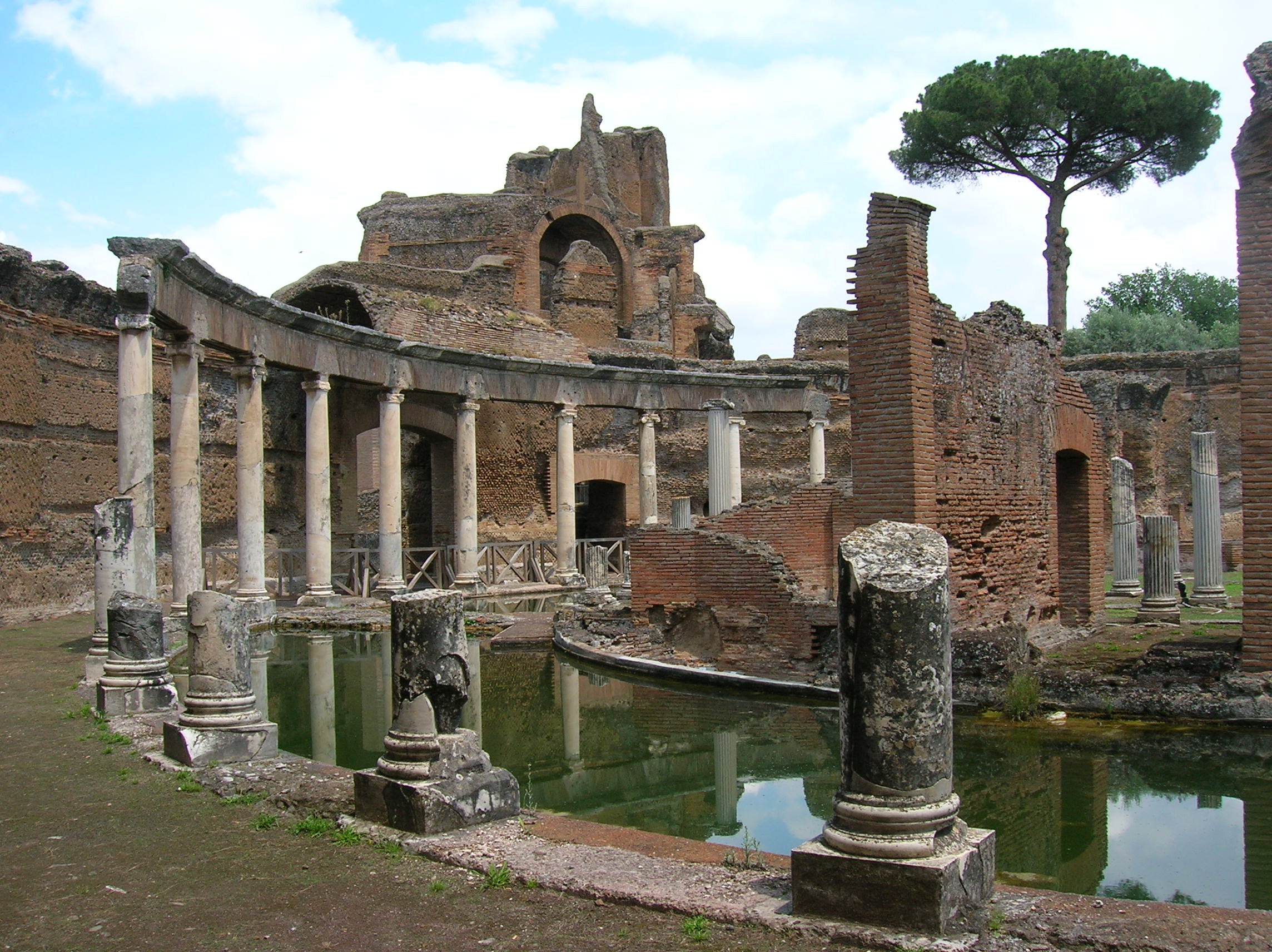 Maritime theater in villa Adriana at Tivoli